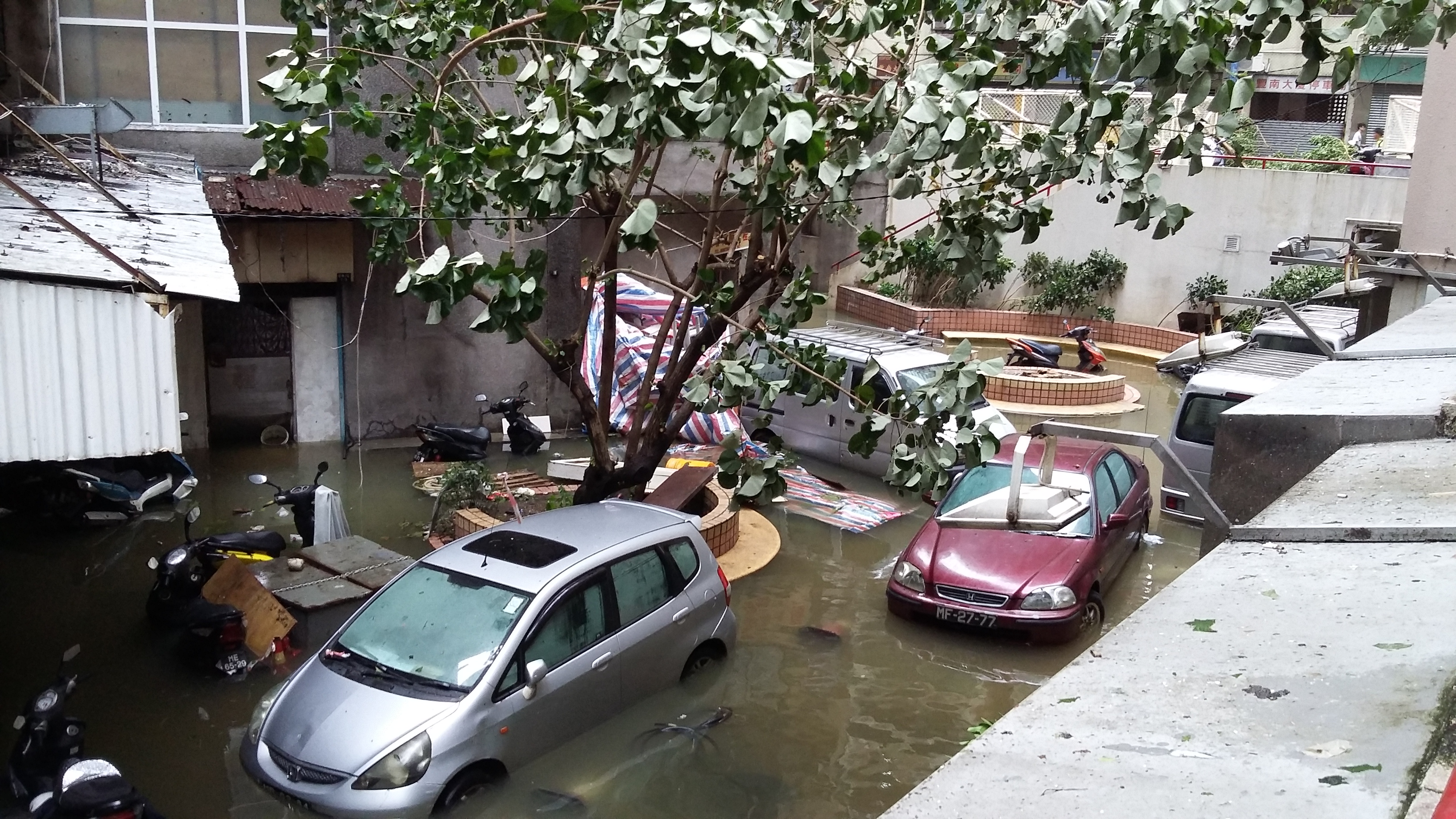 During the storm, at Freguesia de Nossa Senhora de Fátima.